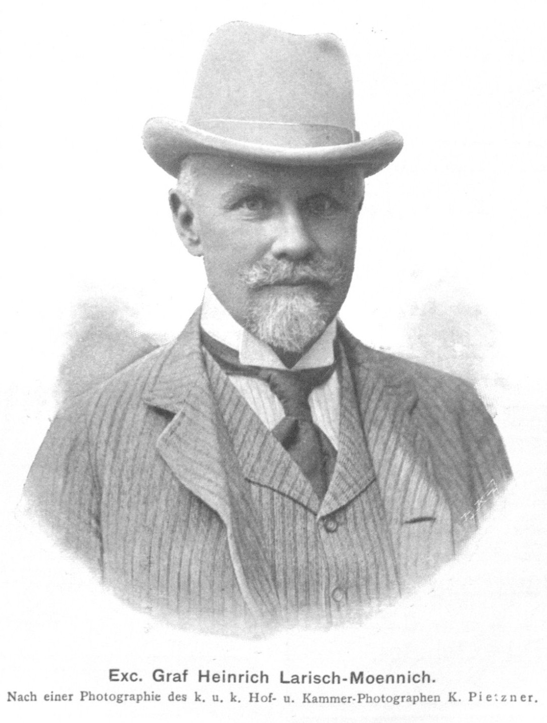 Photograph of Heinrich Graf Larisch von Mönnich (1850-1918), Austrian industrialist and politician.